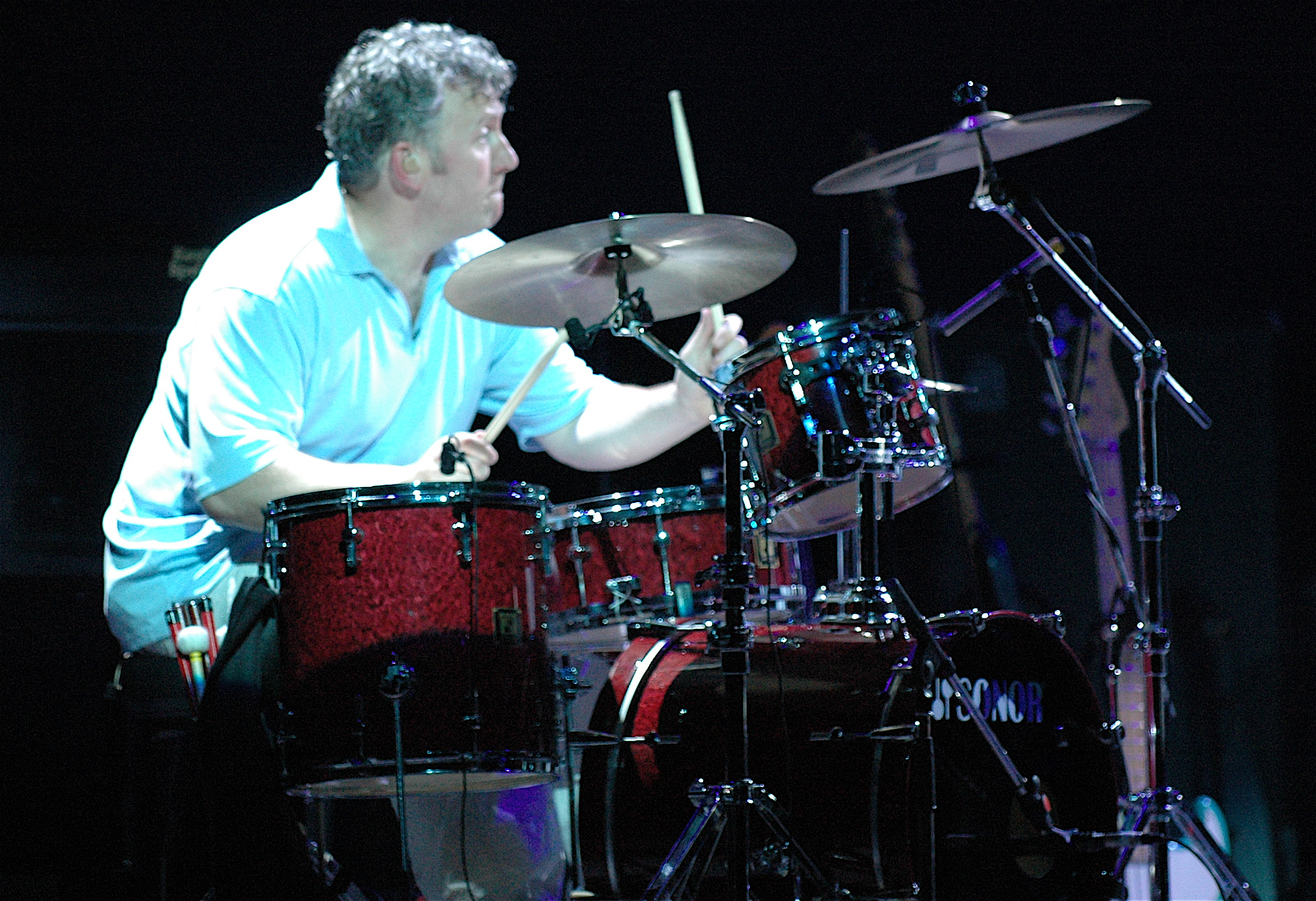 Danny Cummings at the NAC in Ottawa